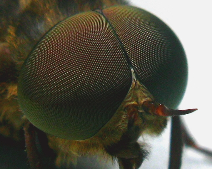 Compound eyes of a male horse-fly (Diptera, family Tabanidae) in Southern Germany, 2009.